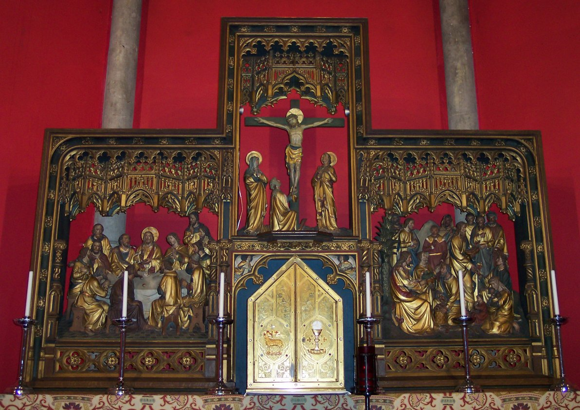 Photograph of the reredos of the chapel of the Immaculate Conception at the American College of Louvain